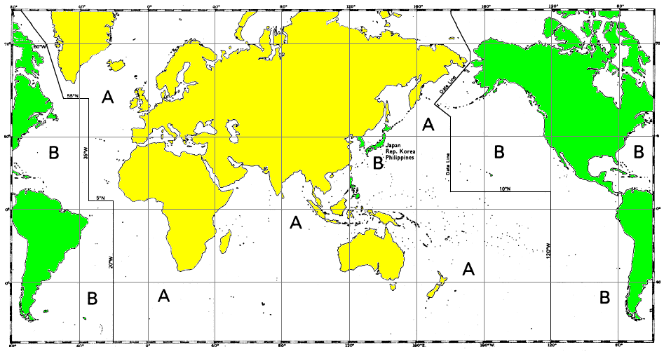 IALA system distribution